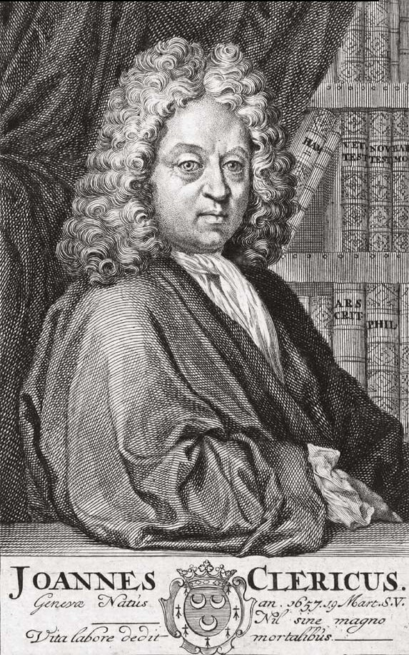 1657 engraving of Johannes Clericus (Jean Le Clerc) theologian and philospher.